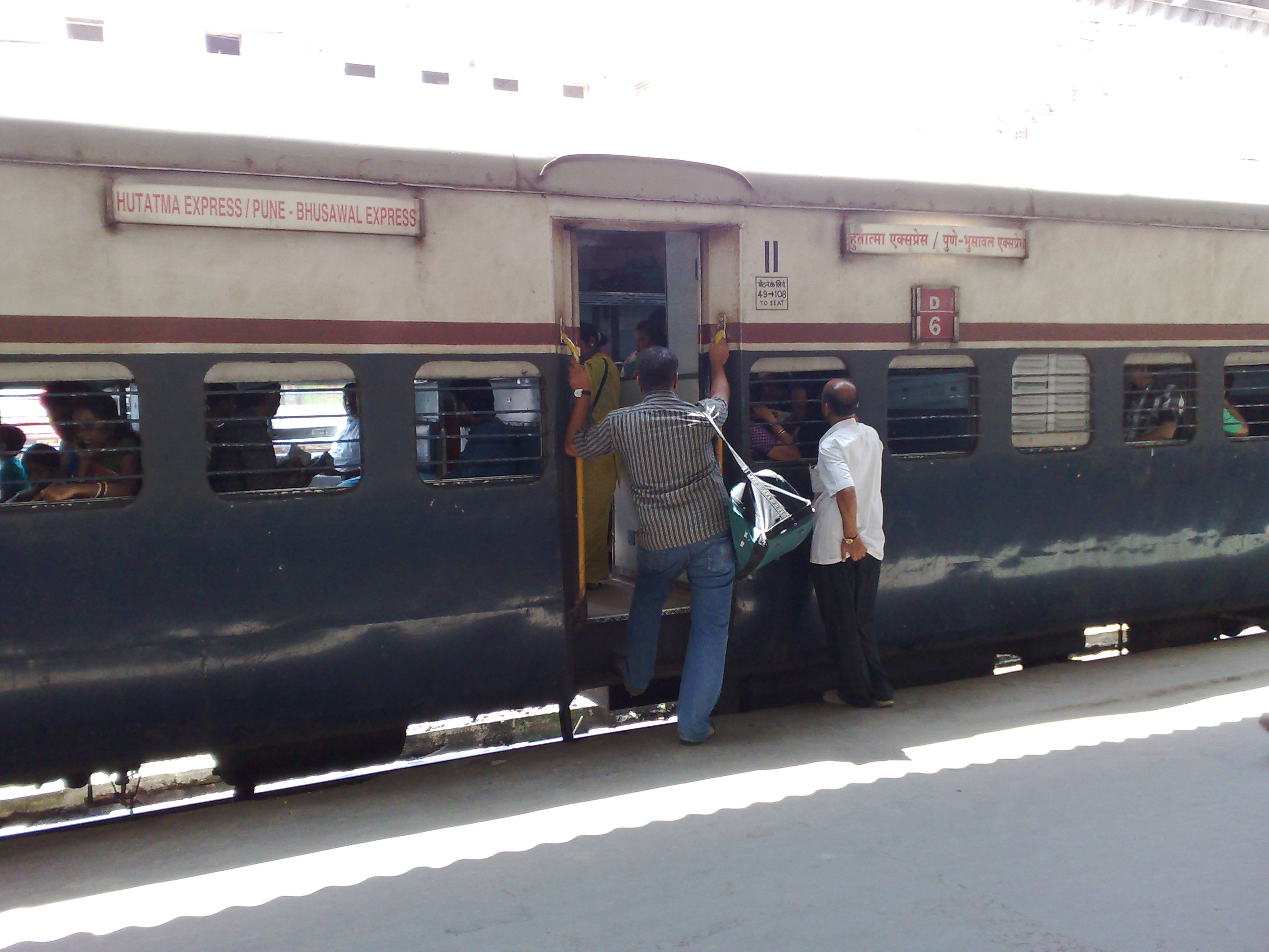 Hutatma Express - 2nd Class seating